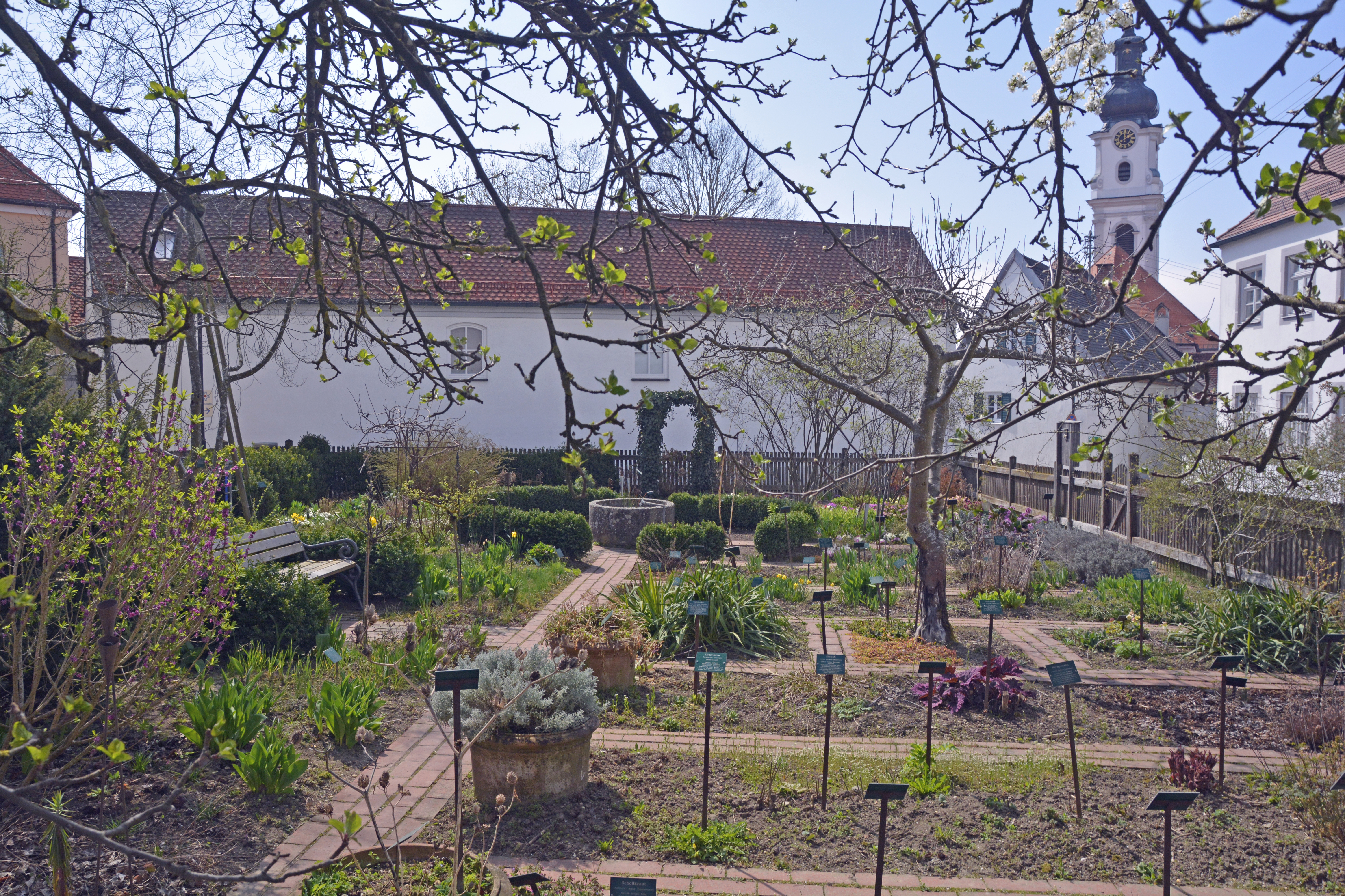 Altomuenster Abbey Garden